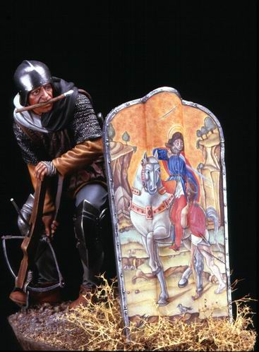 Model of a Pavese shield (with Bartolomeo Vivarini's "St. Martin and the Beggar" painting on it) and crossbowman, middle-ages